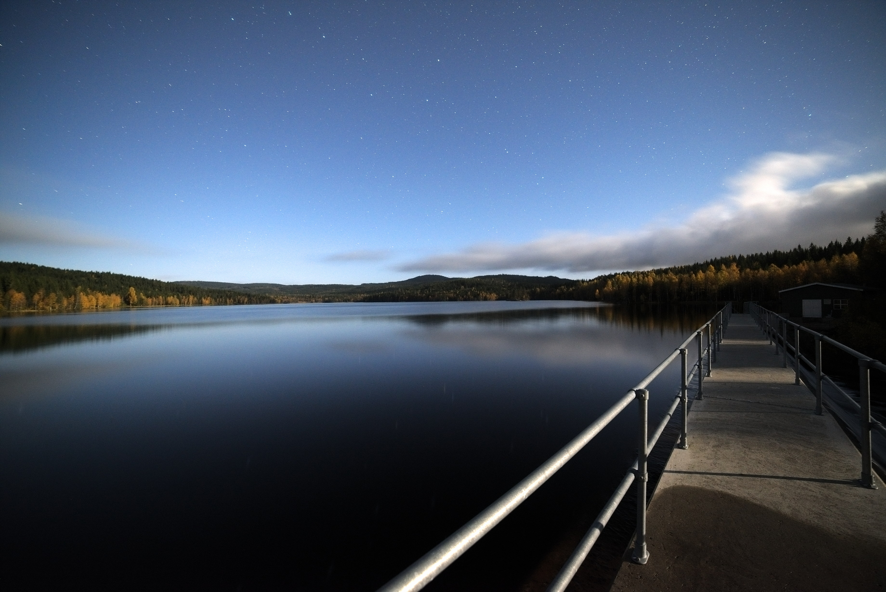 Bjertnessjøen in Romeriksåsen in Nannestad